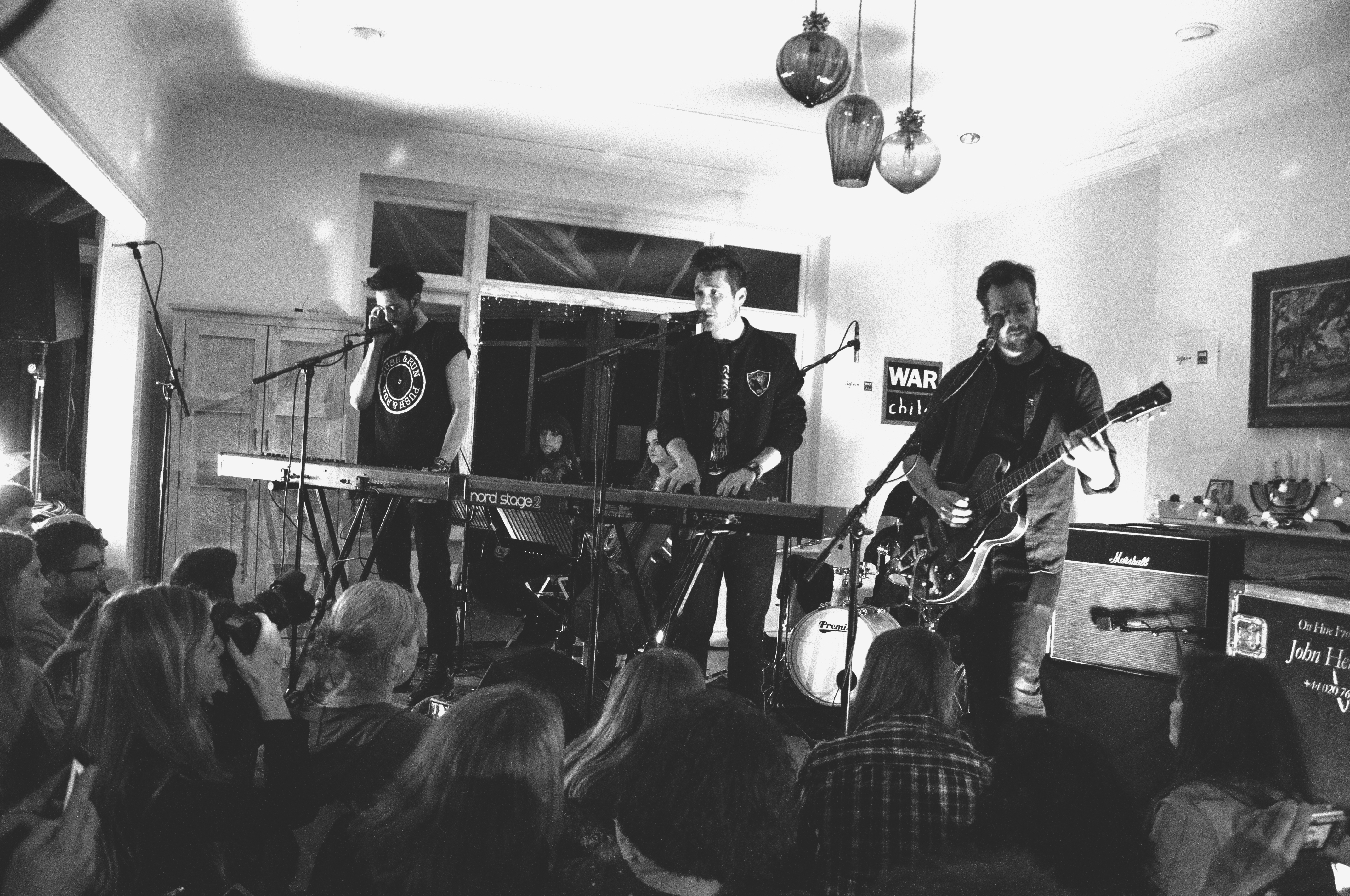 Bastille performing a stripped-down set at the special Sofar Sounds x War Child charity gig in London.